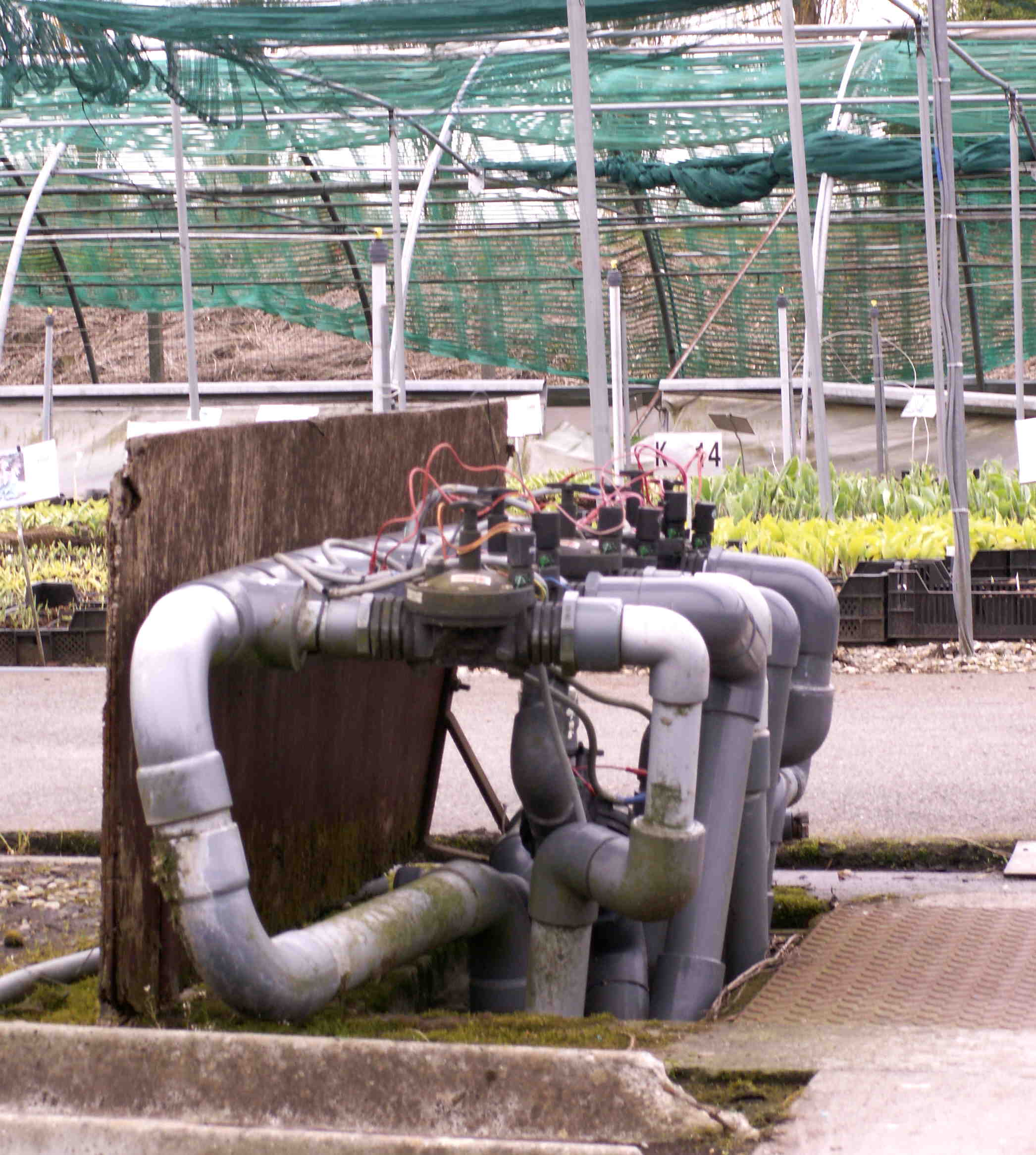 An irrigation line with imbedded watertimer